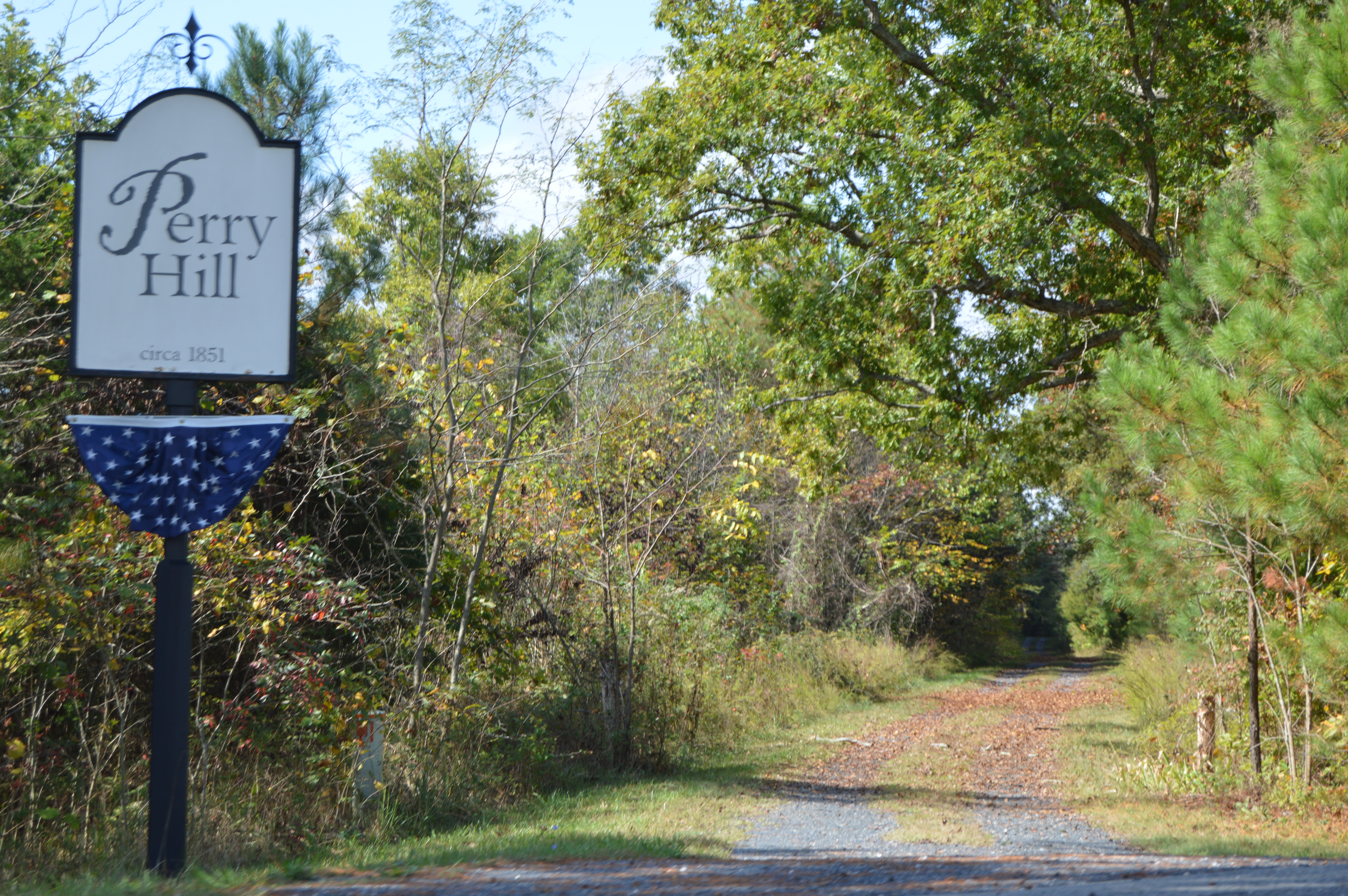 Entrance to the driveway for the Perry Hill property, located on State Route 56 northeast of St. Joy in Buckingham County, Virginia, United States. The property is listed on the National Register of Historic Places.